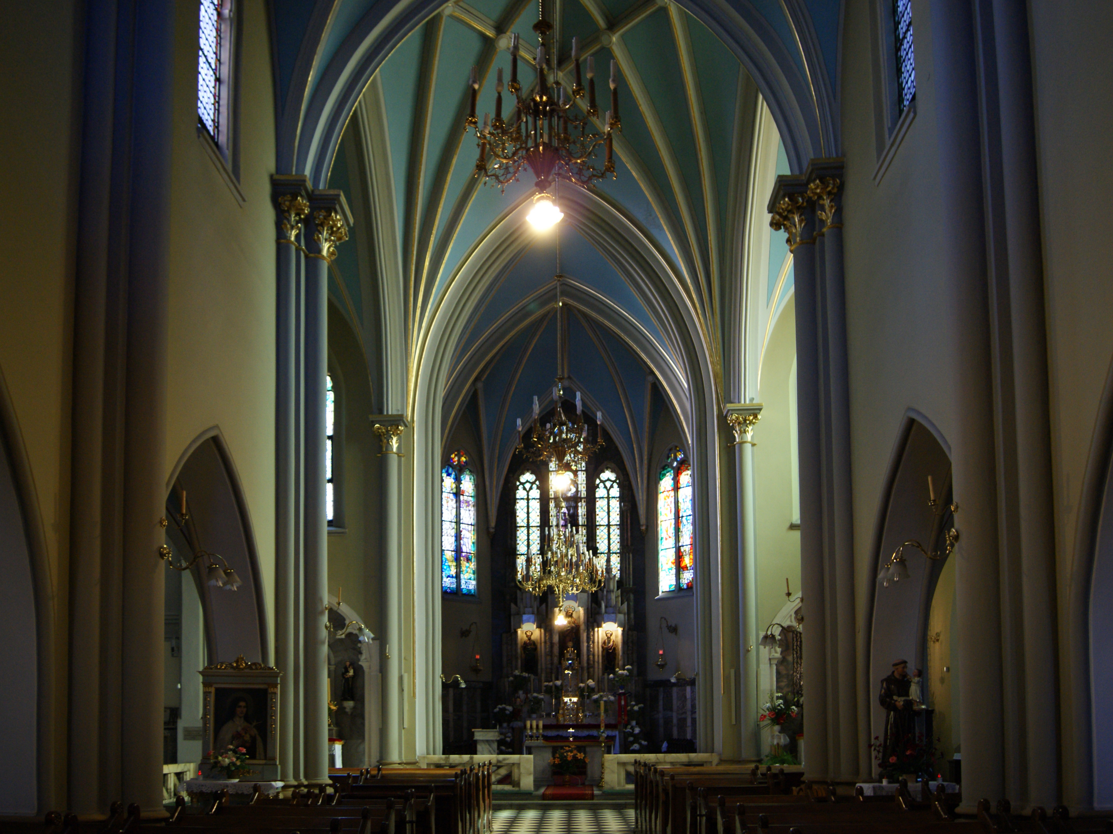 St Vincent de Paul Church (interior), 19 sw. Flipa street, Kleparz, Krakow, Poland